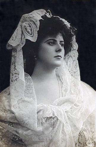 Gaynor Rowlands - Gaiety Girl. UK 1904. Image taken from a postcard more than 100 years old.